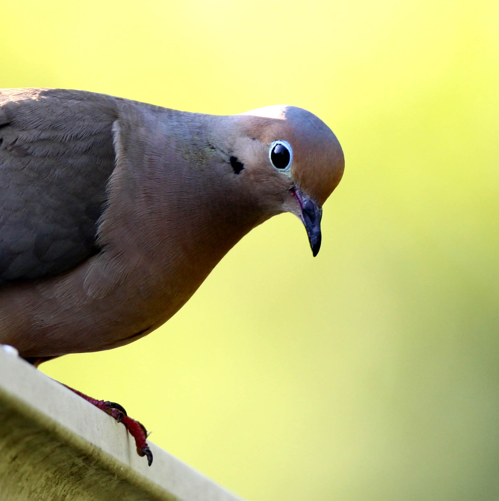 mourning dove